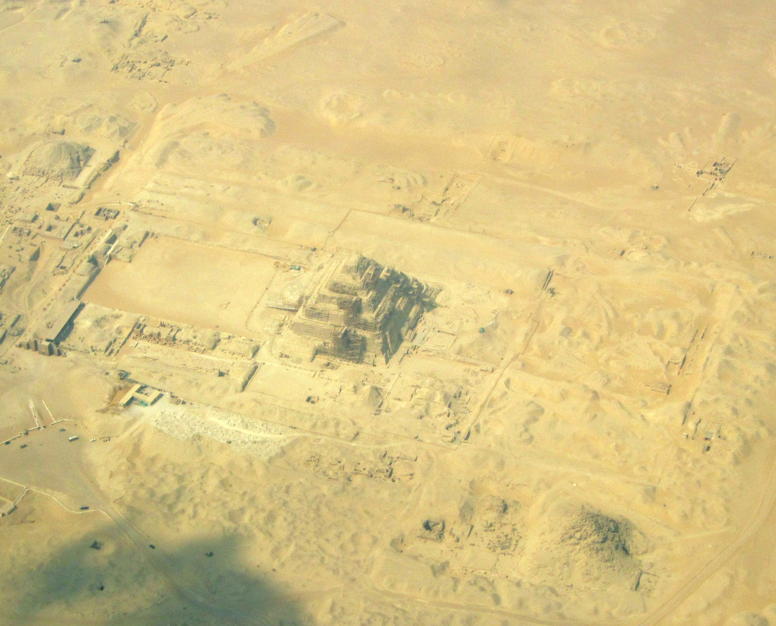 Aerial view of the northern Sakkara temple and pyramid field with Djoser's step pyramid